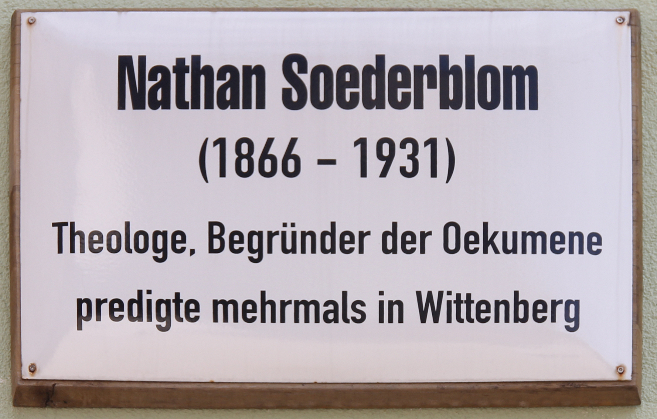 Memorial plaque, Nathan Söderblom, Kirchplatz 11, Lutherstadt Wittenberg, Germany Koordinate:51°51′59″N 12°38′44″E / 51.86639°N 12.64556°E